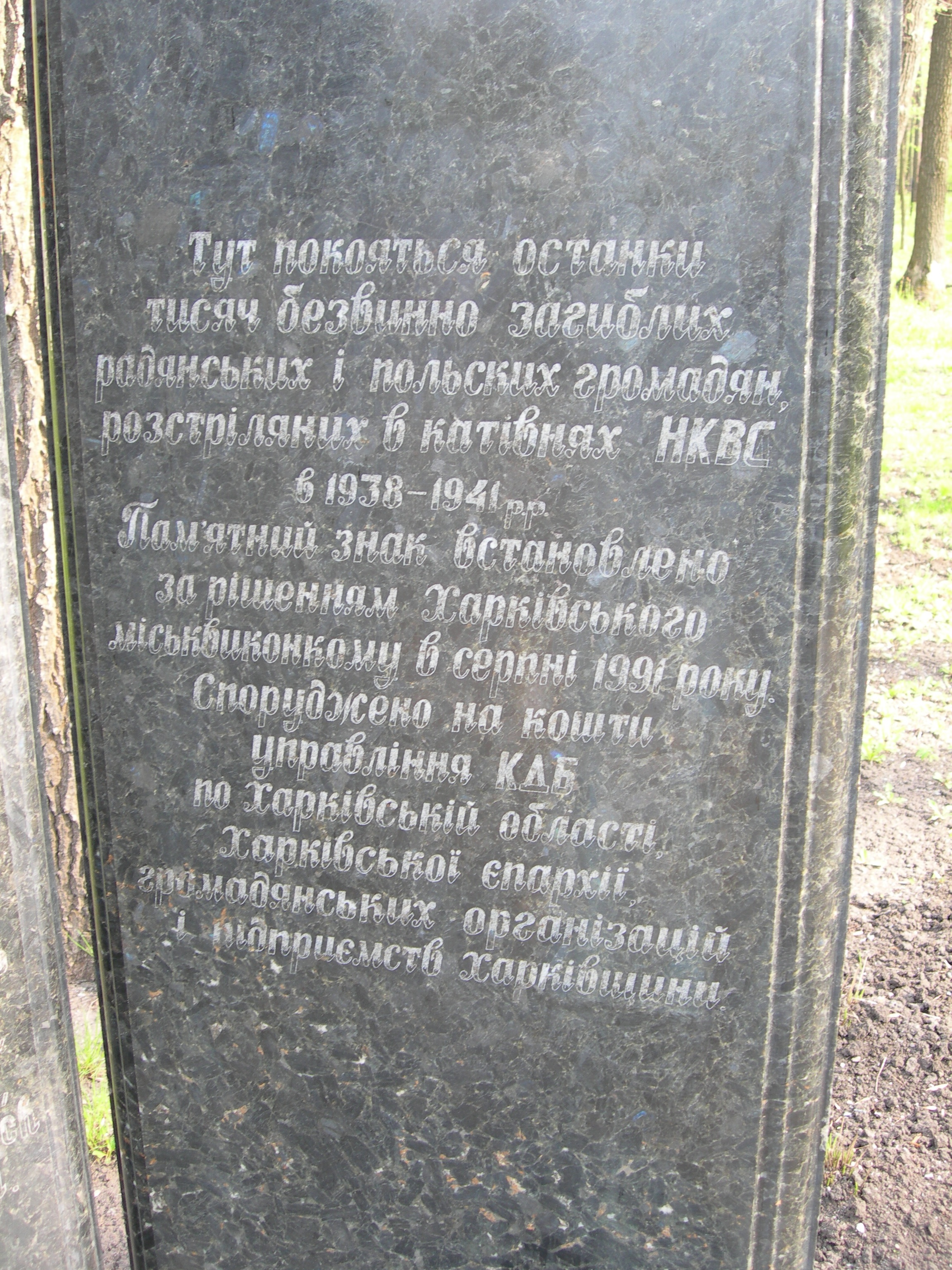 Monument regarding murder of Polish officers in Kharkiv in 1940. Part of the Katyn Massacre.